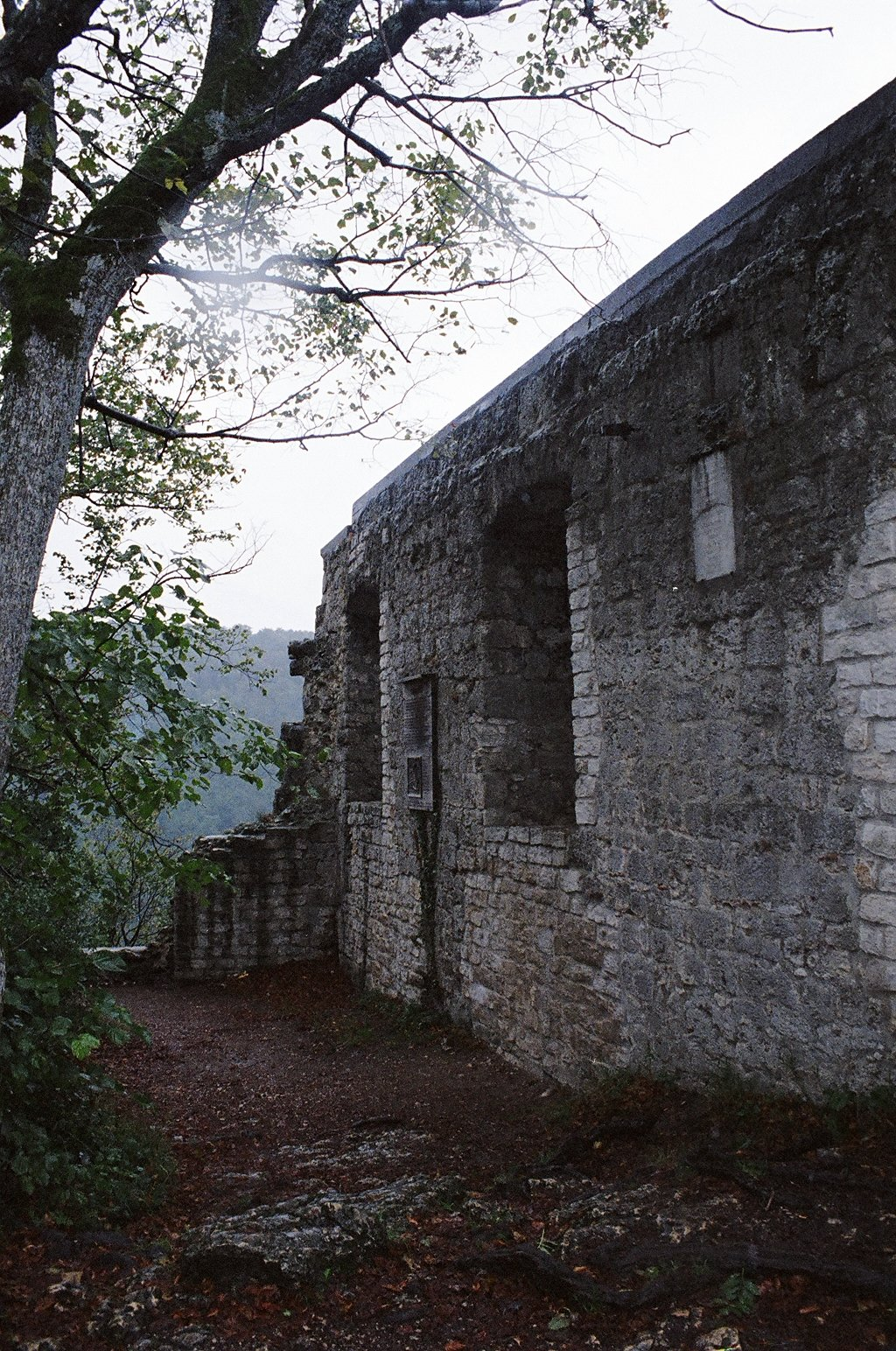 Ruins of the Castle Rosenstein from inside